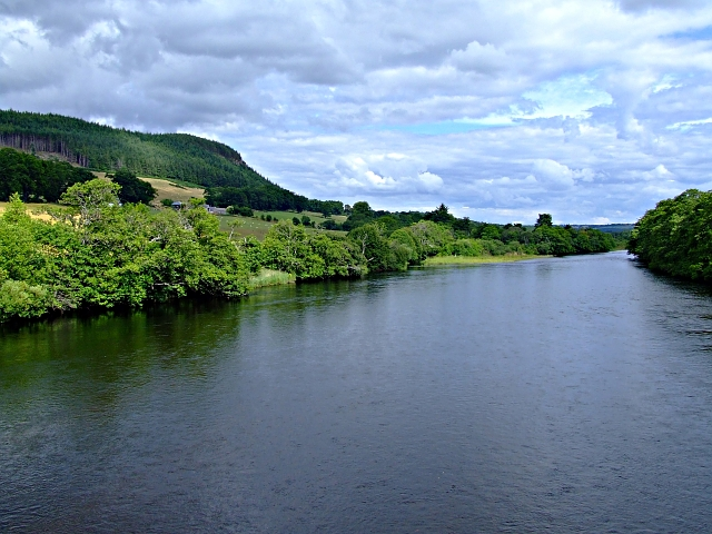 The River Conon. Taken from Moy Bridge looking down stream.